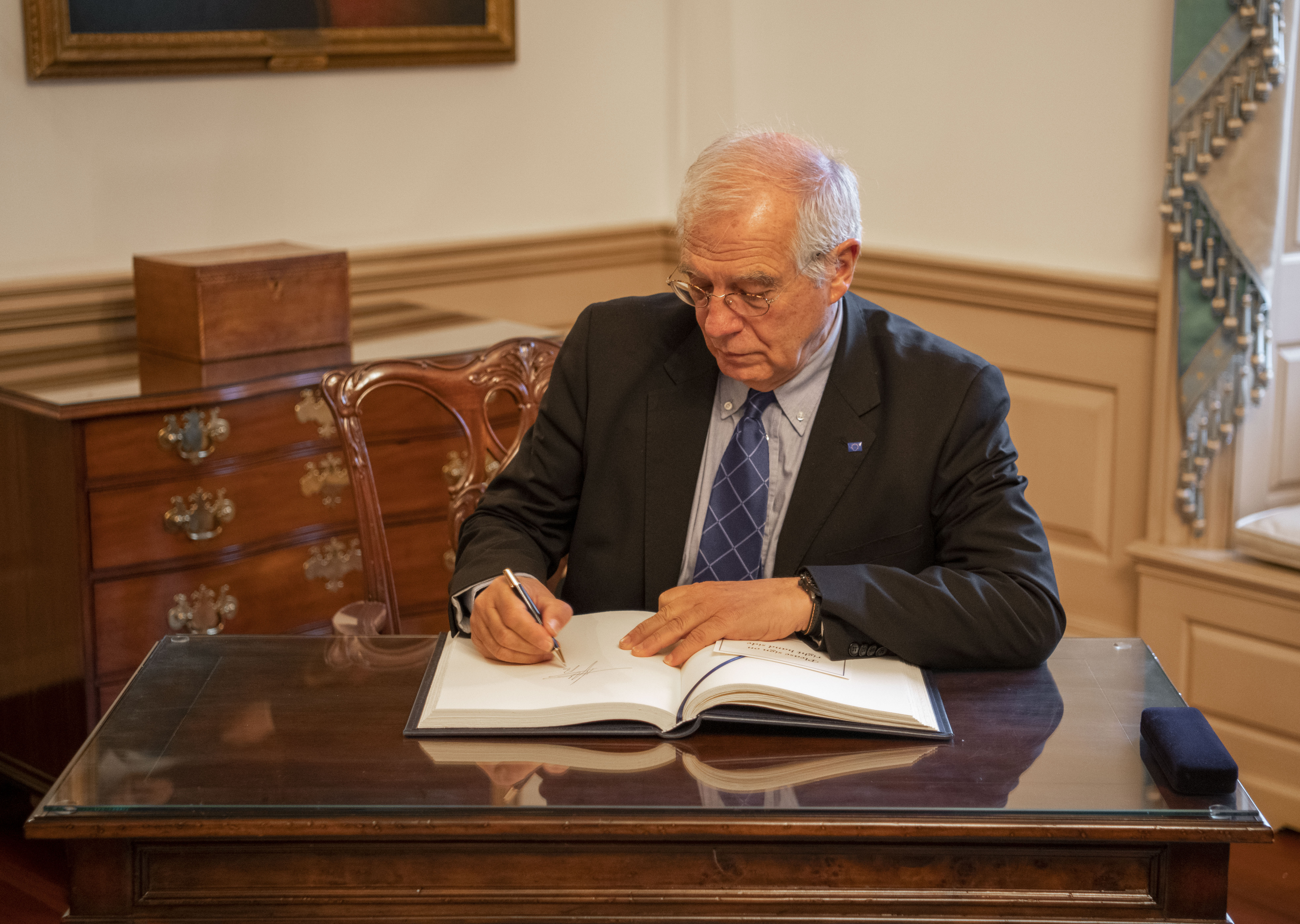 European Union High Representative for Foreign Affairs and Security Policy and European Commission Vice President Josep Borrell signs the guest book, at the Department of State in Washington D.C., on February 7, 2020. [State Department Photo by Freddie Everett/ Public Domain]